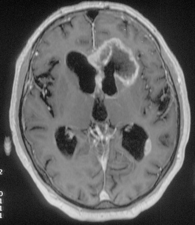 Magnetic resonance imaging of the brain revealed a left frontal, invasive, multilocular, infiltrating process.